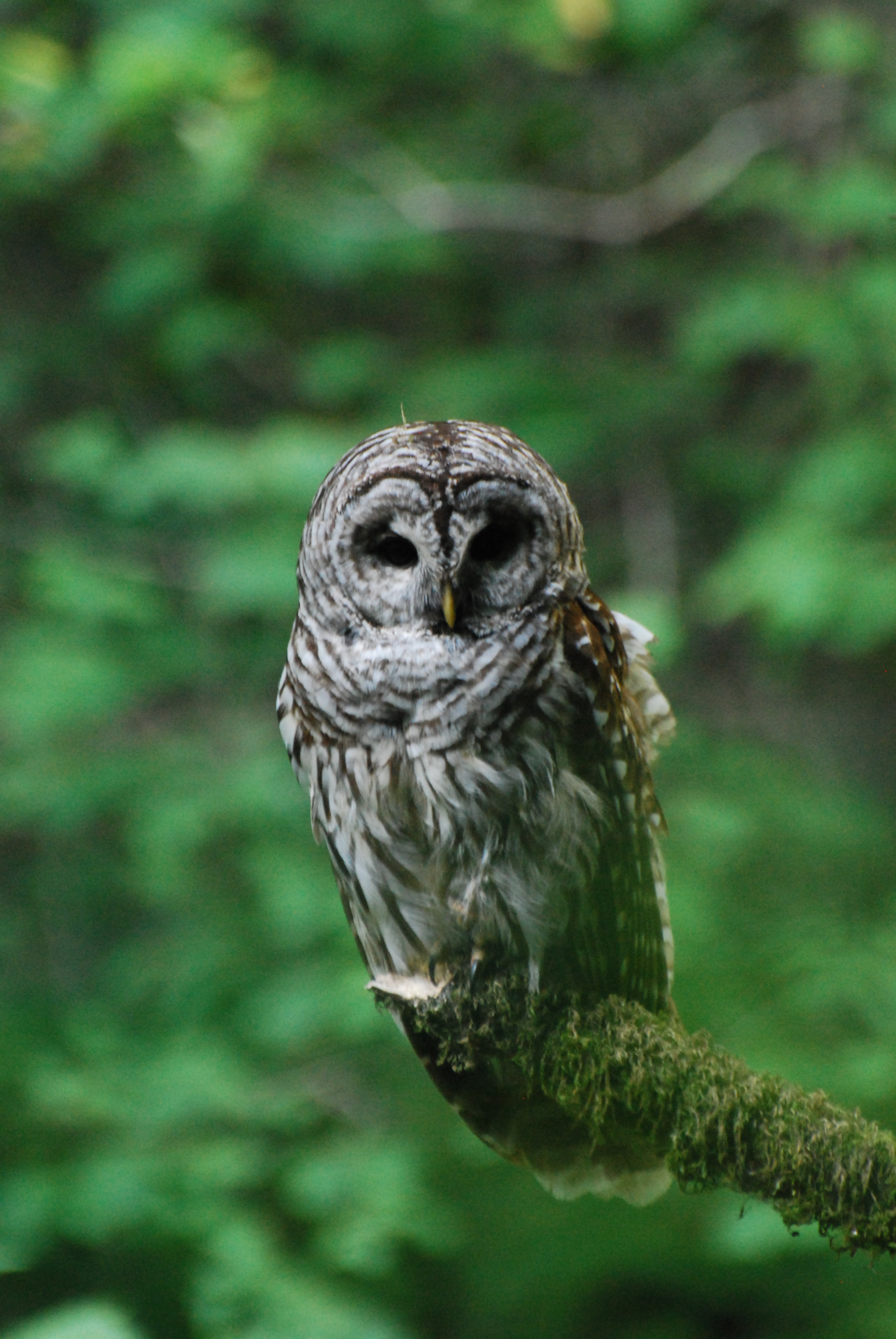 Muir Woods National Monument, California, U.S.A.